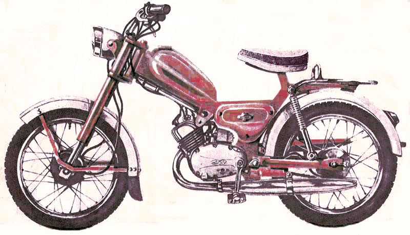 USSR moped Werhowina-3 (1970-1973)